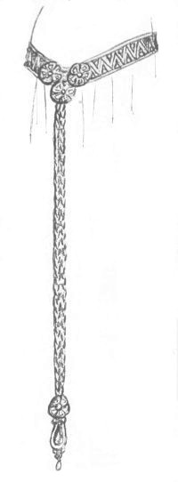 15th century girdle - illustration by Percy Anderson for Costume Fanciful, Historical and Theatrical, 1906